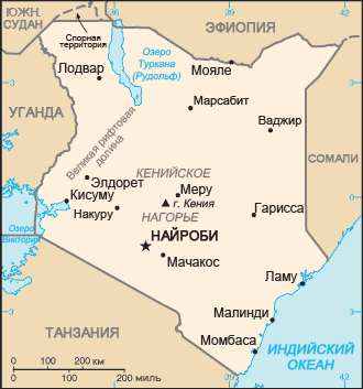 Map of Kenya with South Sudan